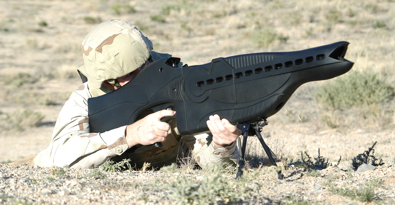 The Personnel Halting and Stimulation Response (PHaSR) is a rifle-sized laser weapon system that uses two non-lethal laser wavelengths to deter, prevent, or mitigate an adversary's effectiveness. The laser light generated by this weapon illuminates or "dazzles" aggressors, temporarily impairing individuals and their ability to see the laser source.